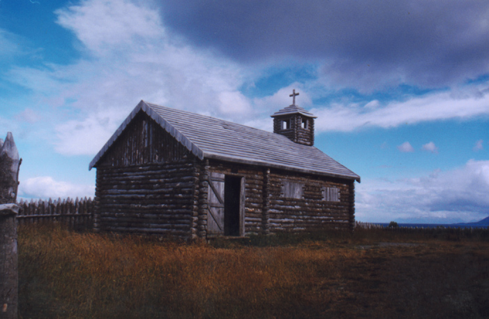 Fuerte Bulnes Picture taken by User:Baloo_rch.